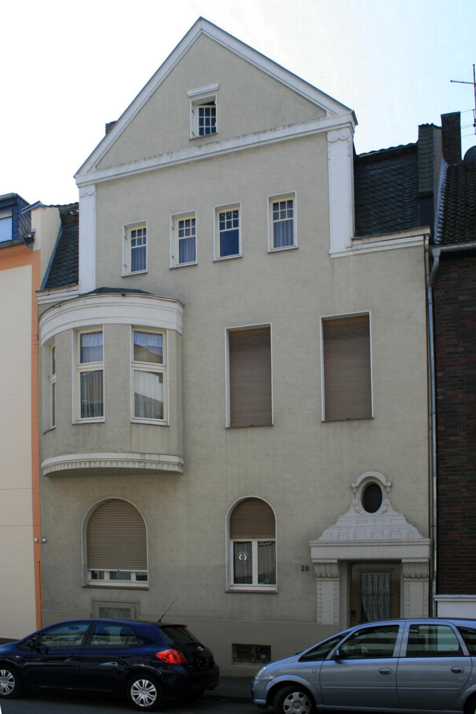 Cultural heritage monument No. F 019 in Mönchengladbach